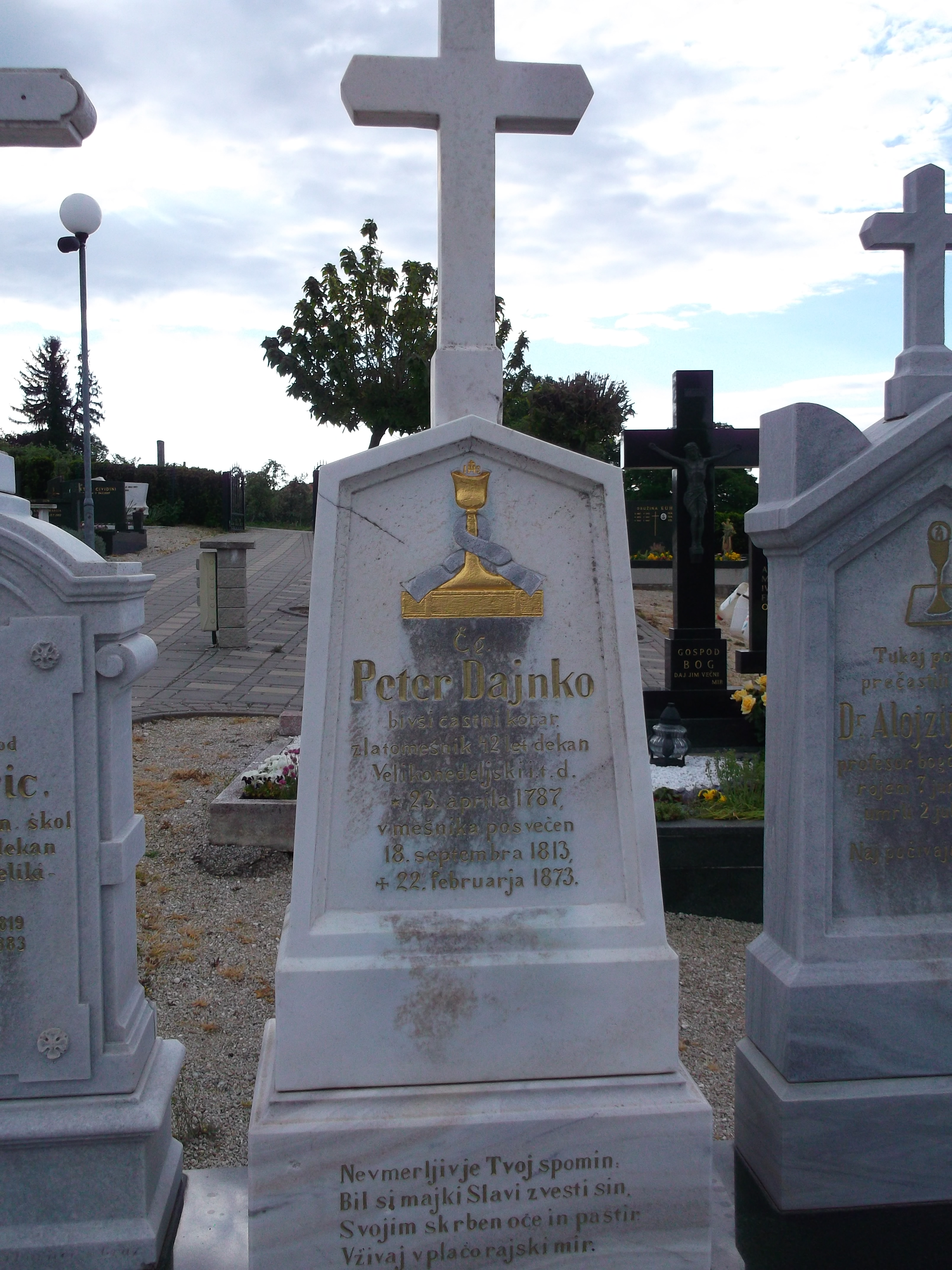 The grave of Peter Dajnko (1787-1873) Styrian Slovene writer, linguist, Roman Catholic priest in the Velika Nedelja Cemetery